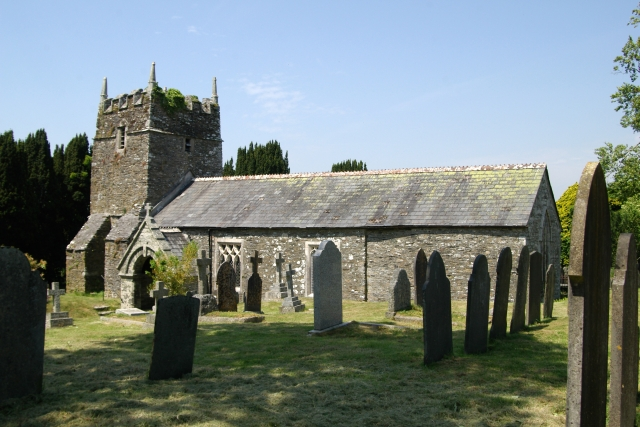 St Erney Church. The church at St Erney, near Landrake, south east Cornwall.